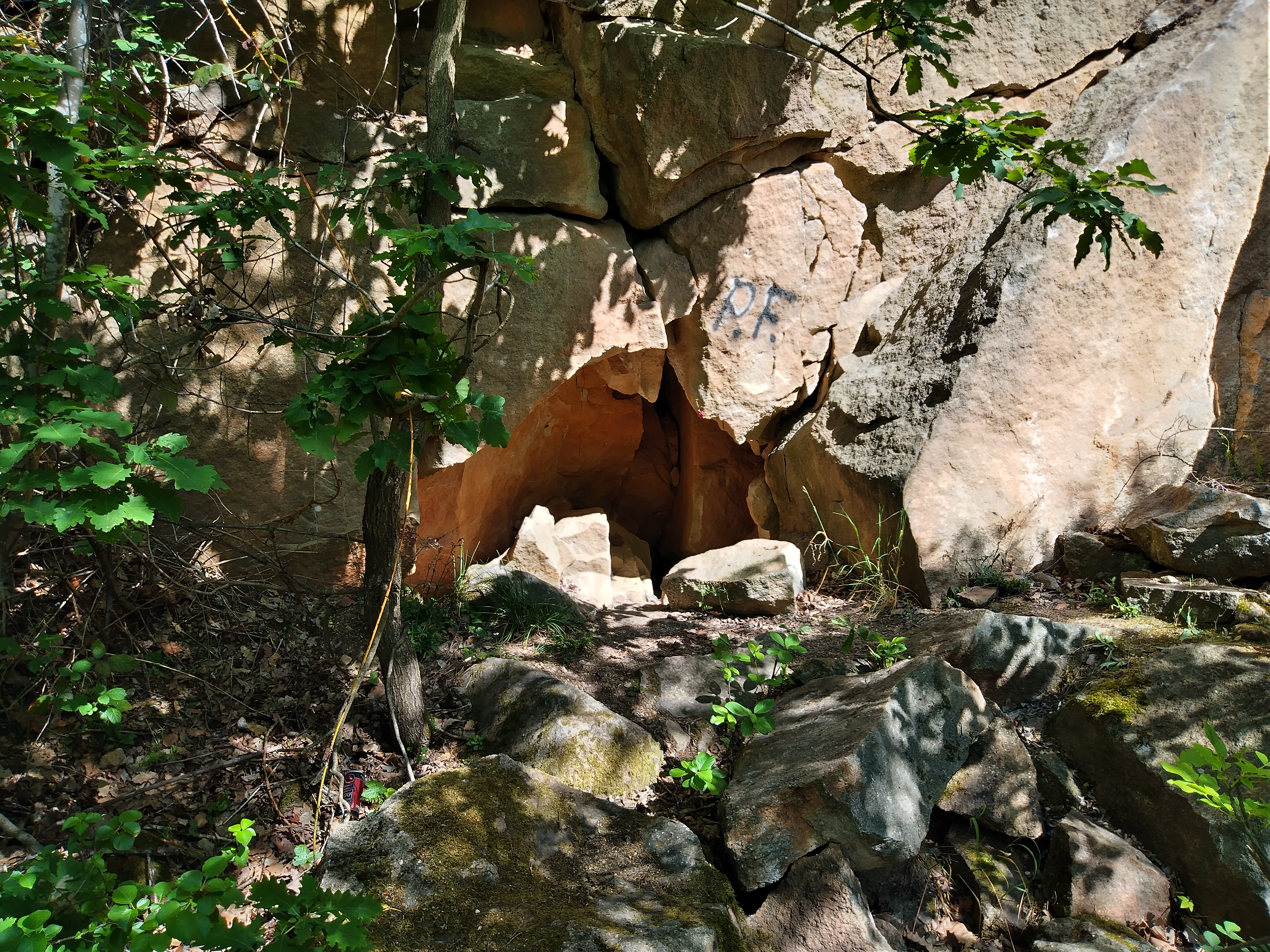 Entrance of the Papp Ferenc Cave (Hungary, Pilisborosjenő)